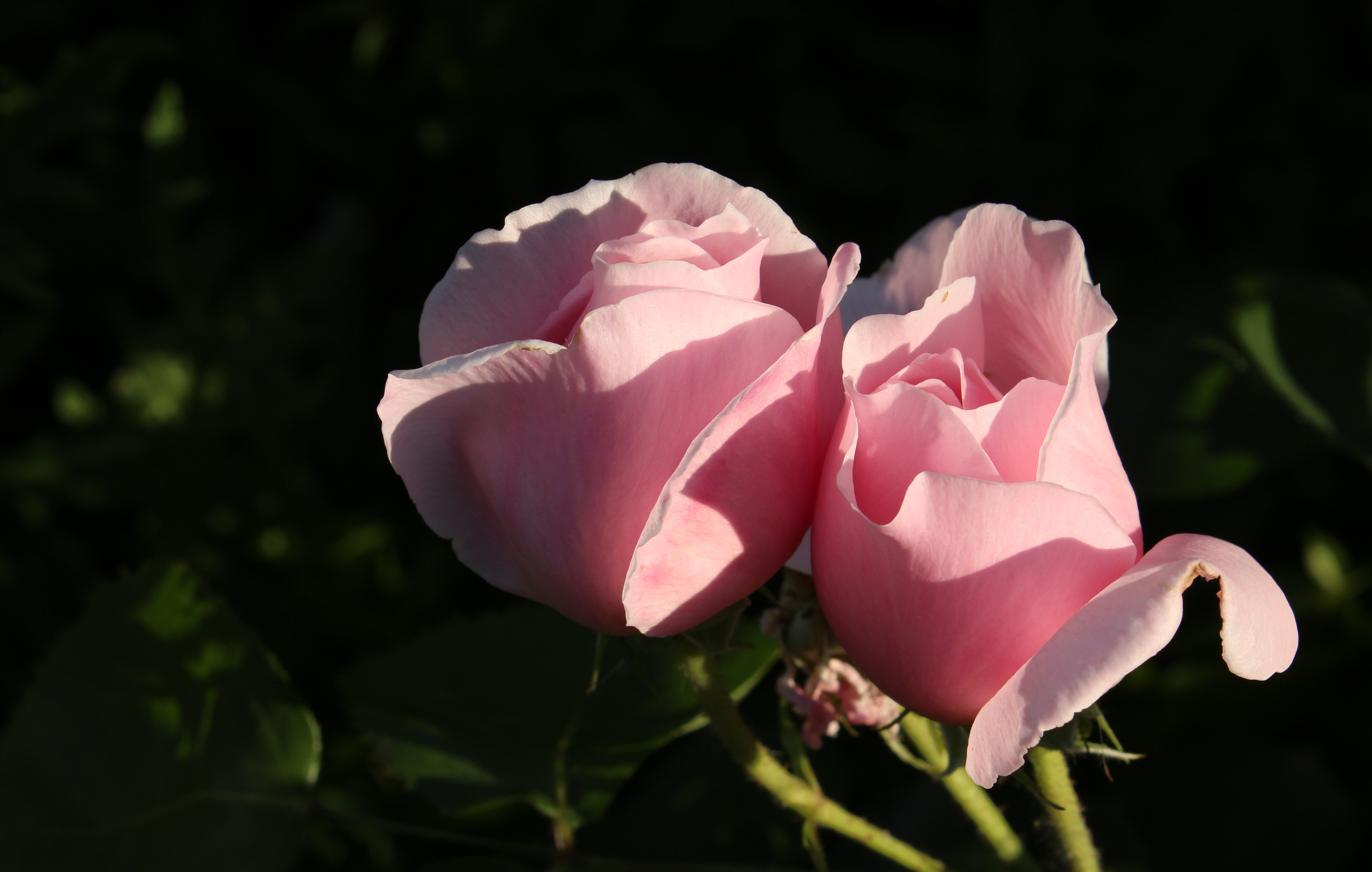 Rosa 'Kathryn Morley' in the Rosarium Wettsteinpark in Vienna. Identified by sign